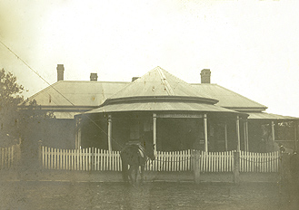 Wellington Post and Telegraph Office Dated: No date Digital ID: 4346_a020_a020000099 Rights: We'd love to hear from you if you use our photos. Many other photos in our collection are available to view and browse on our website using Photo Investigator.